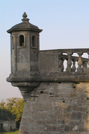 A bartizan at Pidhirtsi Castle, Ukraine.